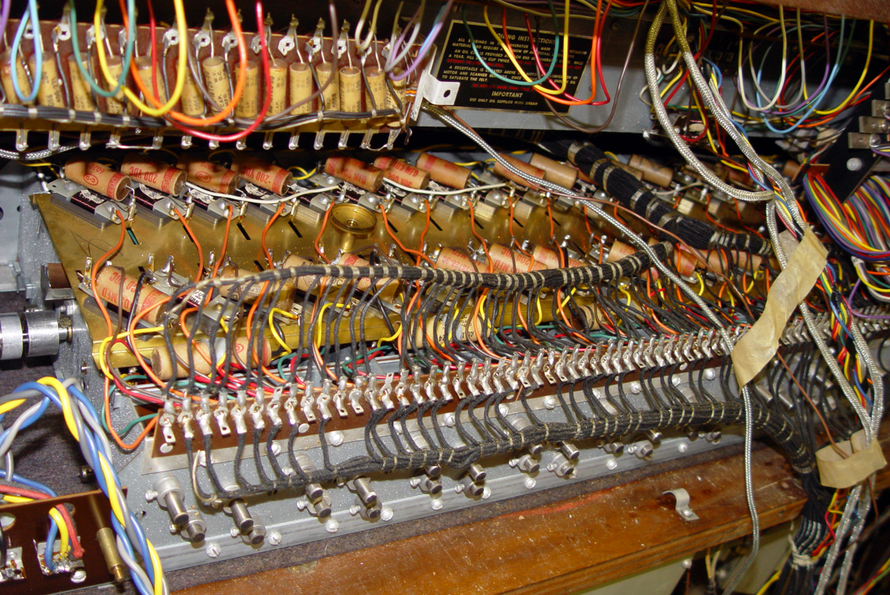 Hammond A100, point to point spaghetti